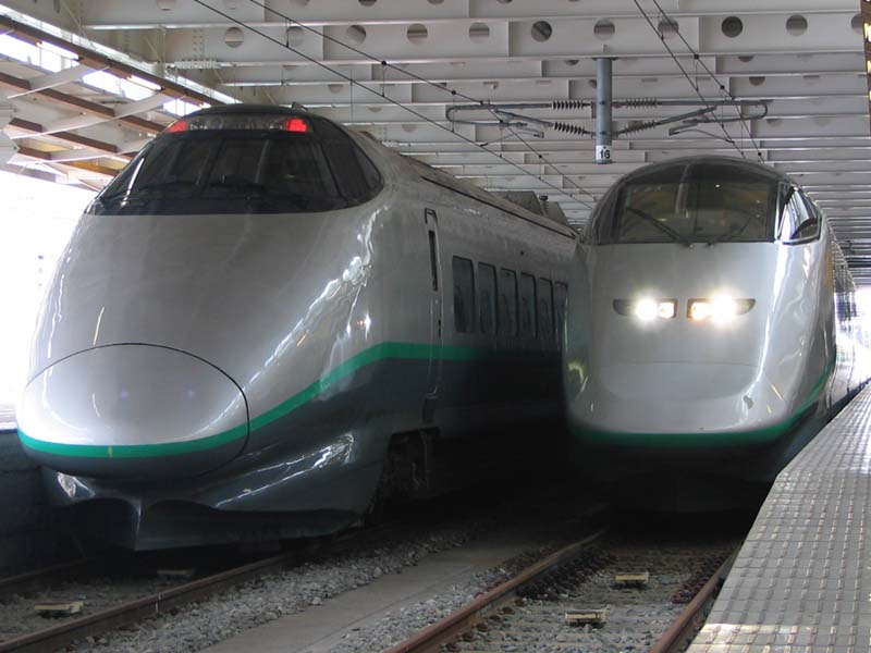 Yamagata Shinkansen trains (Left: 400 series, Right: E3-1000 series) at Shinjo Station